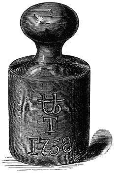 A line drawing of the British Troy Pound standard that was manufactured in 1753 and destroyed in 1834